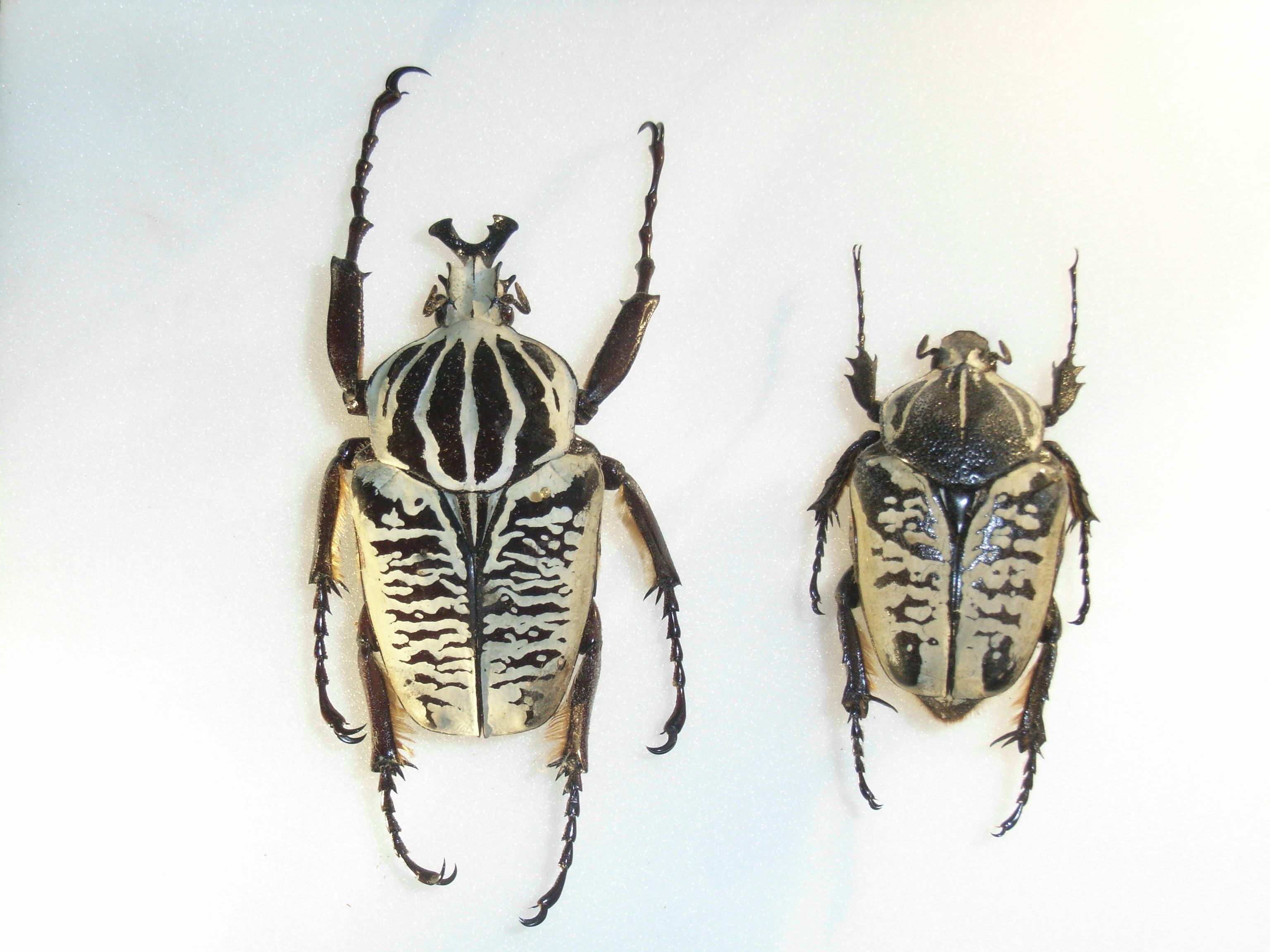 Goliathus albosignatus Pair (male on right) Ex coll.Felix Stumpe